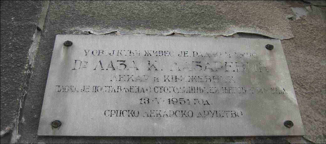 House of Laza Lazarevic in Belgrade.